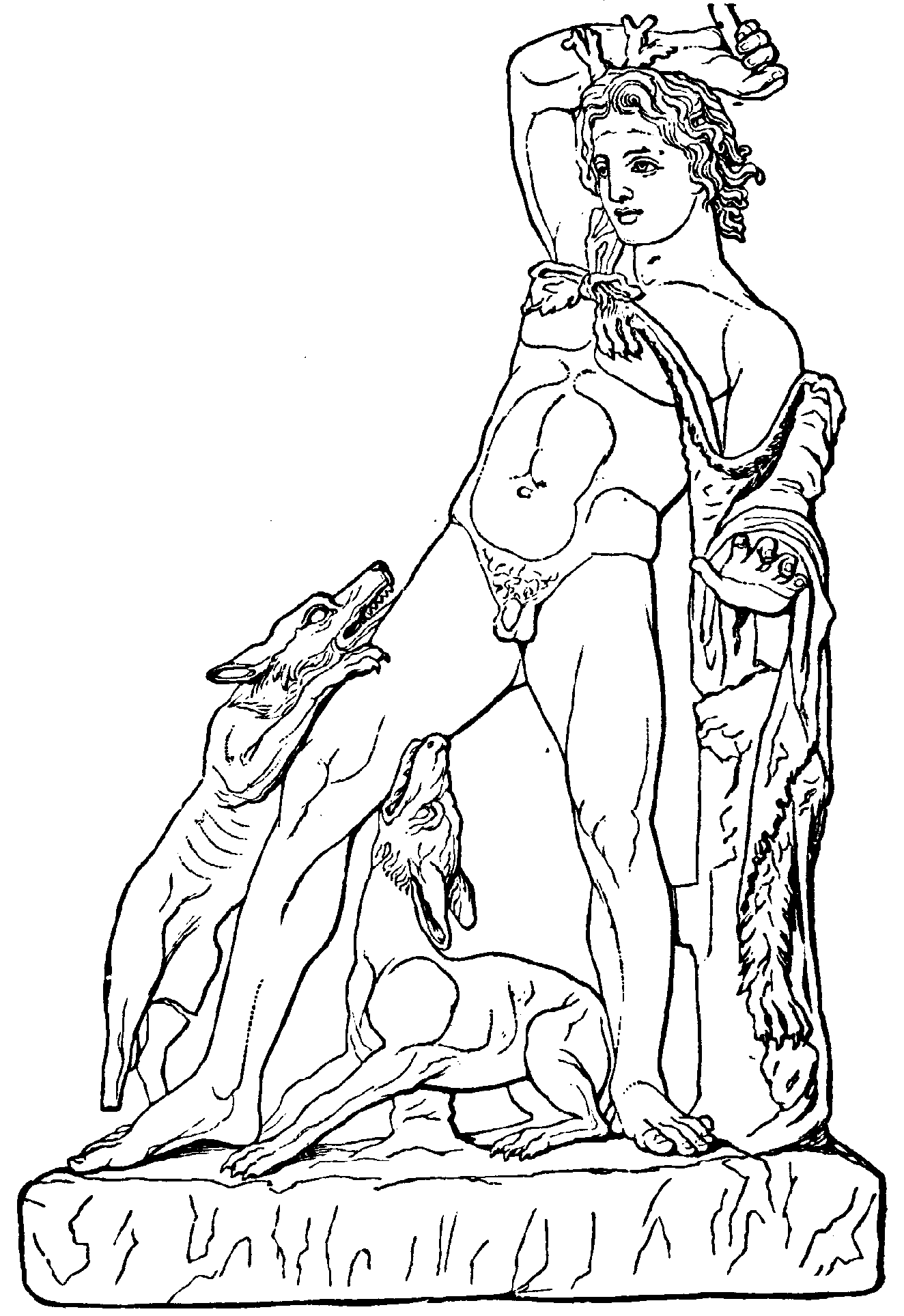 Actaeon and his dogs